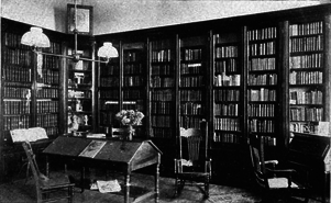 St. Clara Academy a corner in the library